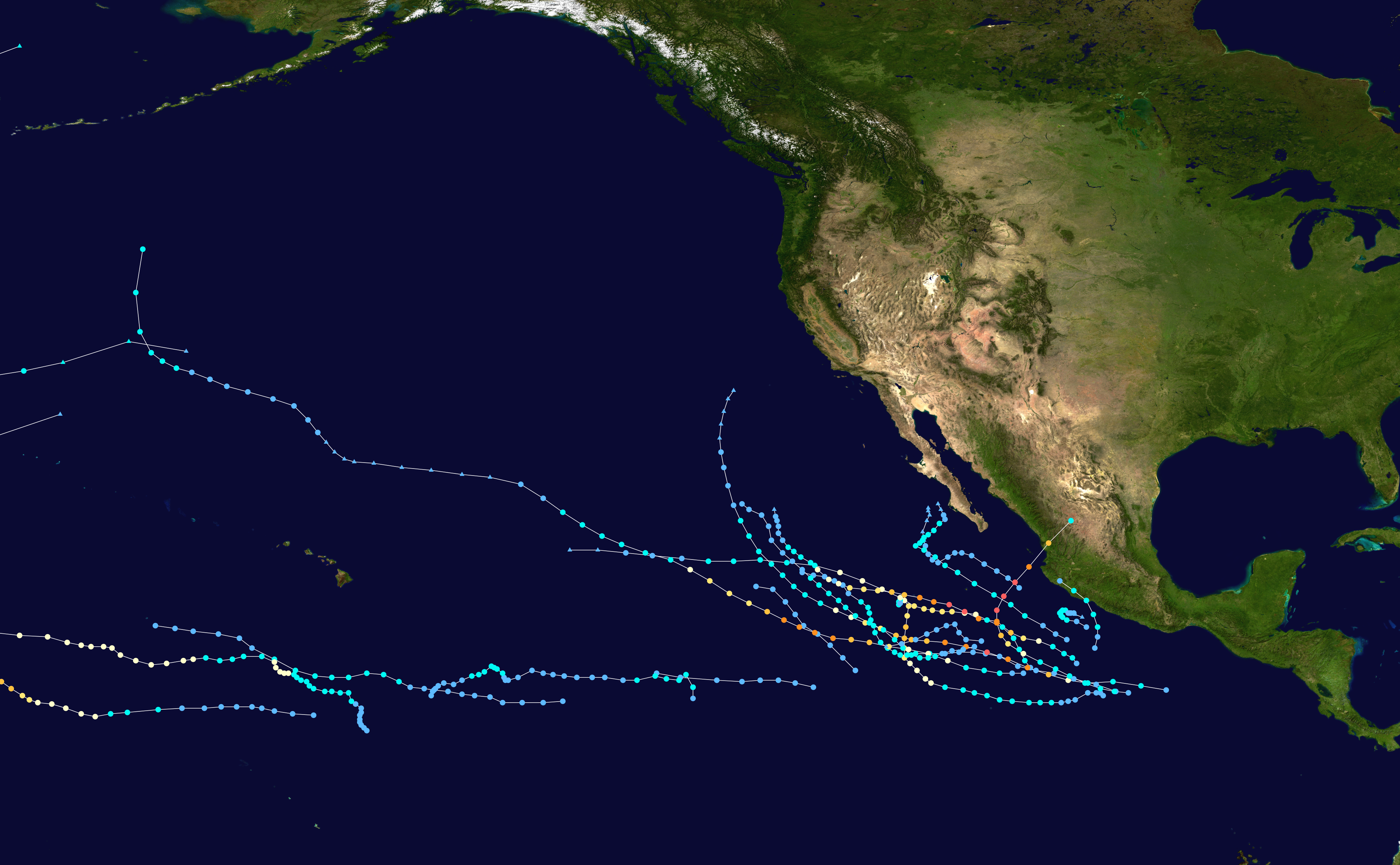 This map shows the tracks of all tropical cyclones in the 2002 Pacific hurricane season. The points show the location of each storm at 6-hour intervals. The colour represents the storm's maximum sustained wind speeds as classified in the Saffir-Simpson Hurricane Scale (see below), and the shape of the data points represent the type of the storm. Saffir–Simpson scale Tropical depression≤38 mph≤62 km/h Category 3111–129 mph178–208 km/h Tropical storm39–73 mph63–118 km/h Category 4130–156 mph209–251 km/h Category 174–95 mph119–153 km/h Category 5≥157 mph≥252 km/h Category 296–110 mph154–177 km/h Unknown Storm type Tropical cyclone Subtropical cyclone Extratropical cyclone / Remnant low / Tropical disturbance